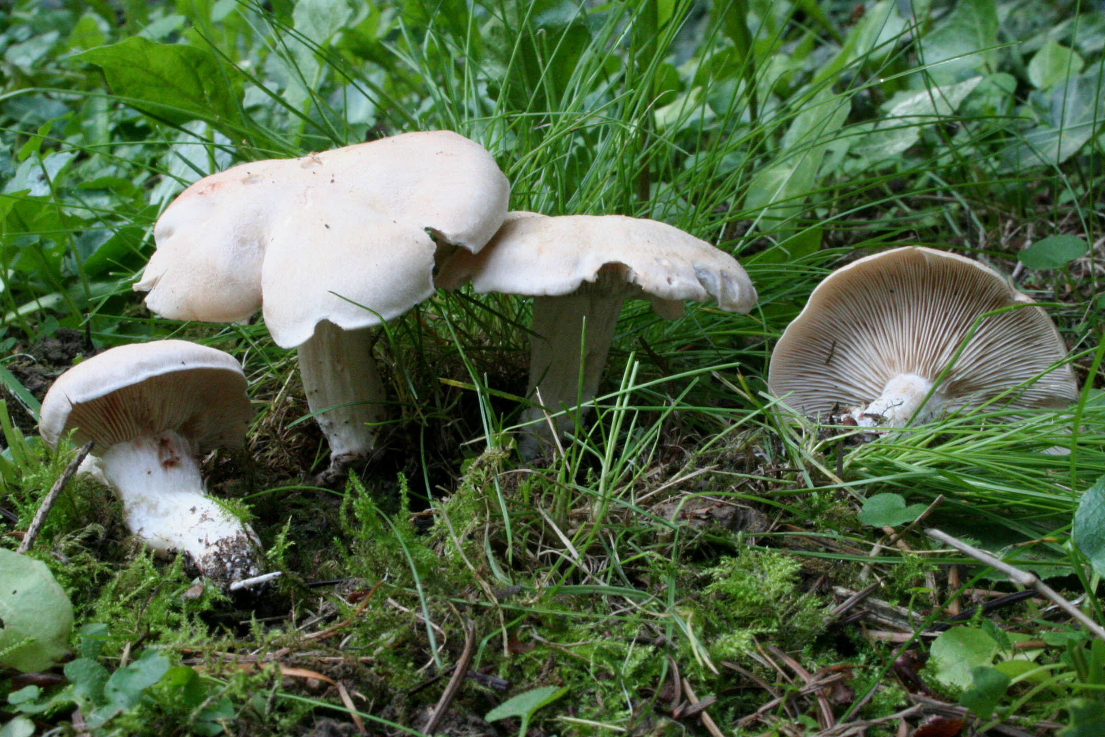 Rhodocybe gemina (= Rh. truncata) in a park near Paris, France.